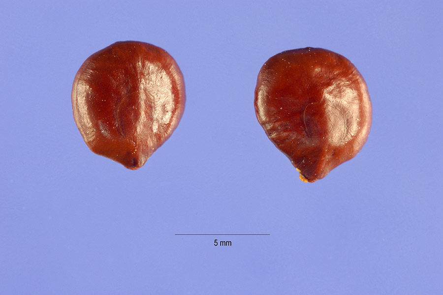 Seeds of Prosopis sericantha